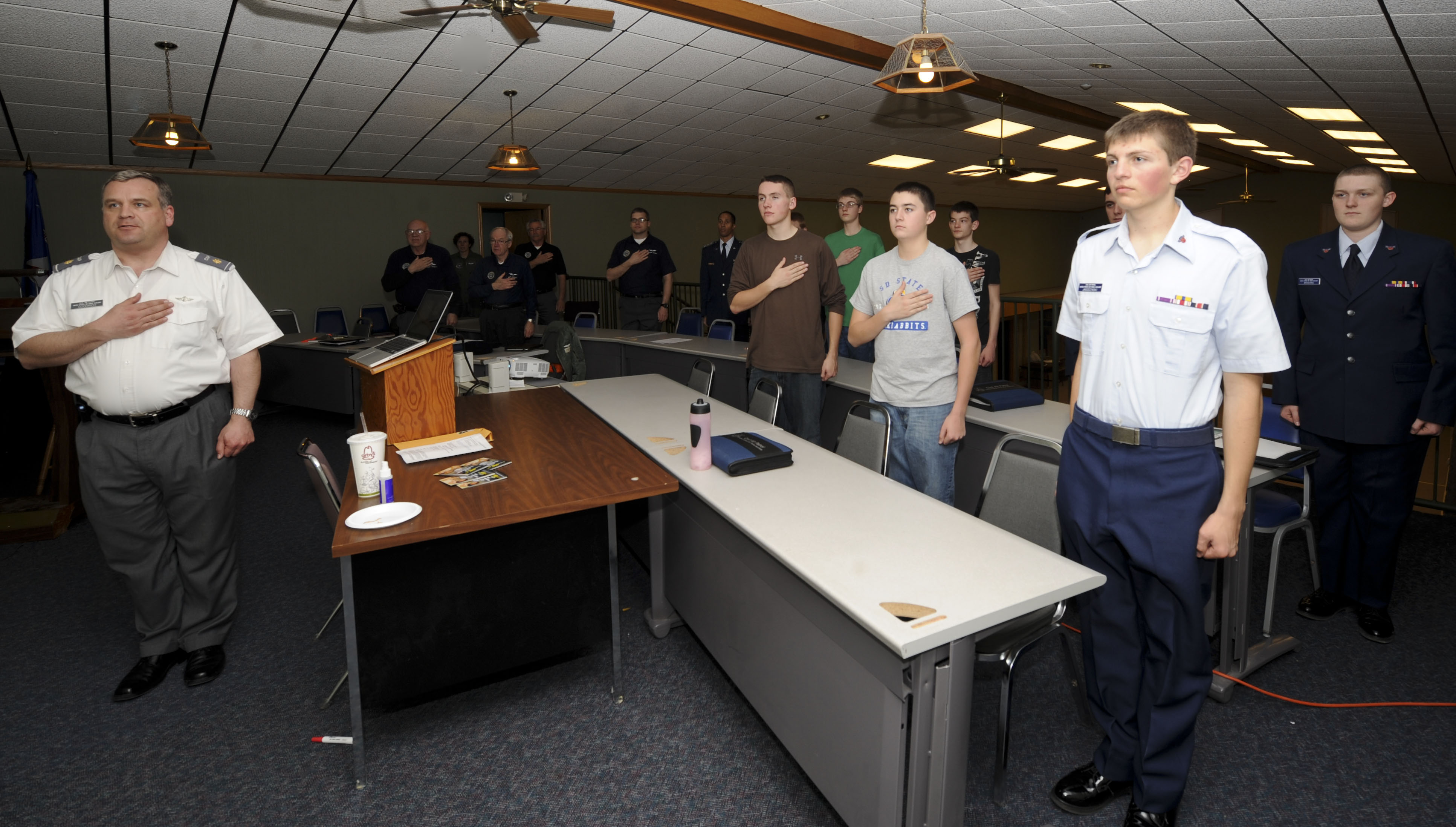 Members of the Civil Air Patrol Rushmore Composite Squadron stand and recite the Pledge of Allegiance during a monthly meeting at Ellsworth Air Force Base, S.D., March 25, 2013. CAP is the official Air Force auxiliary, and a national community service organization made up of trained civilian volunteers. (U.S. Air Force photo by Airman 1st Class Anania Tekurio/Released)